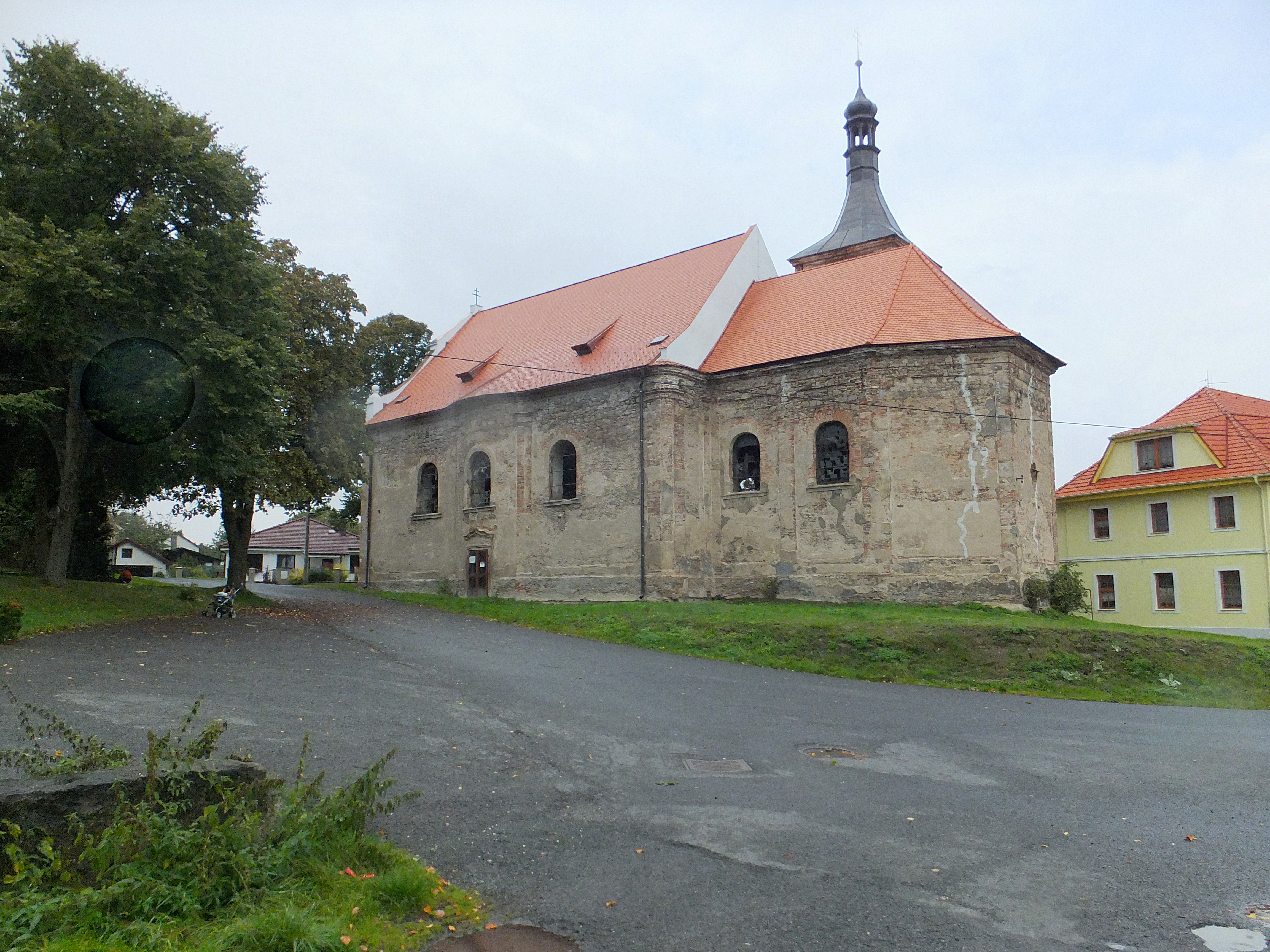 Saint Procopius church in Lestkov (Tachov District), the view from the south-east